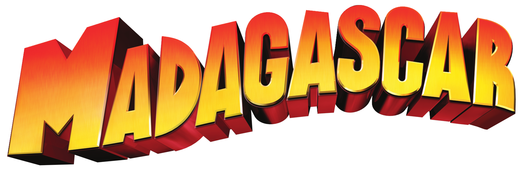 Logo used in the Madagascar (franchise)